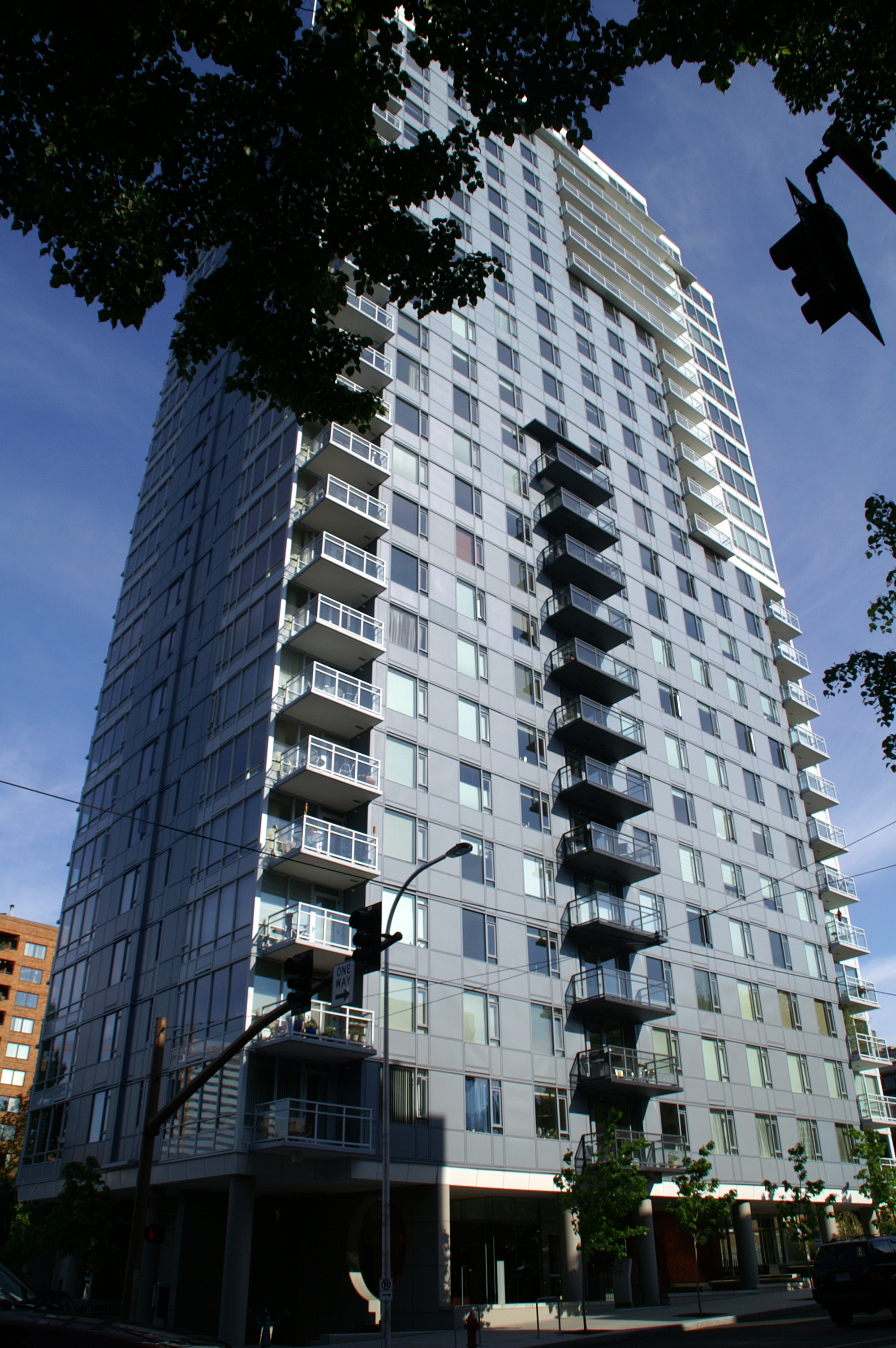 Benson Tower - Portland Oregon -- 2008 May